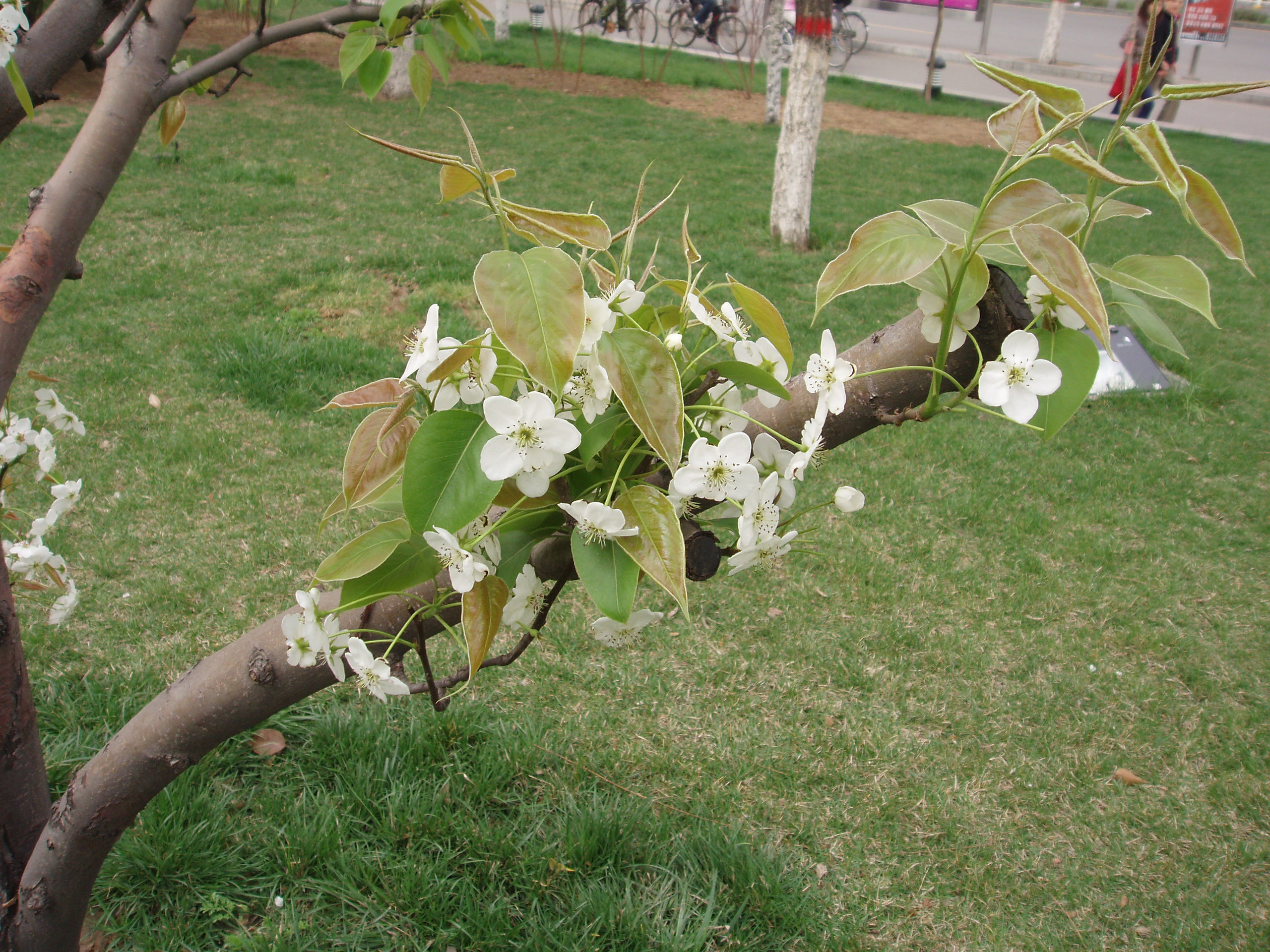 Ya pear flowers